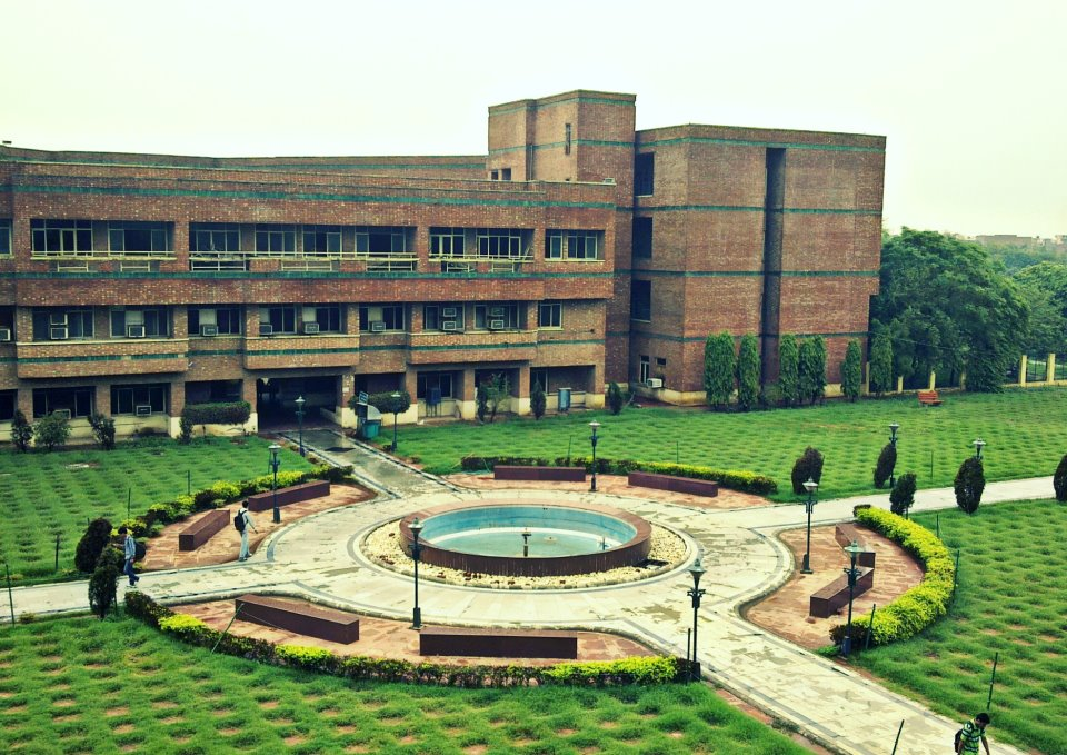 The picture displays the NSIT's central fountain area. The image is clicked by (Bogas04 on wikipedia)